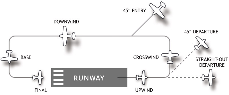 Diagram of a typical airport traffic pattern